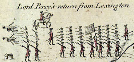 This is an image-enhanced detail from the image shown at right, showing British troops on their way back to Boston on April 19, 1775, during the Battles of Lexington and Concord.